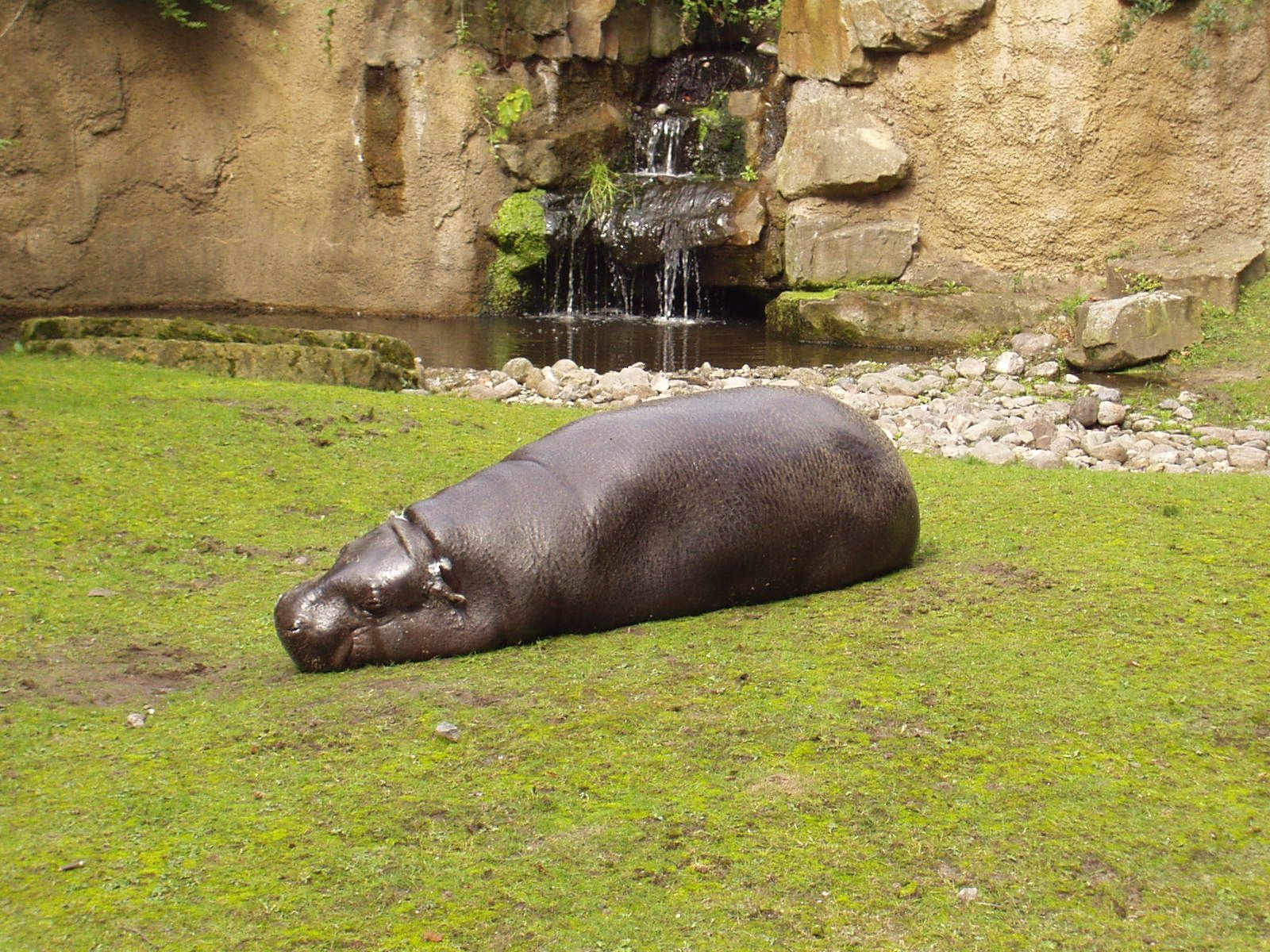 Pygmy Hippopotamus